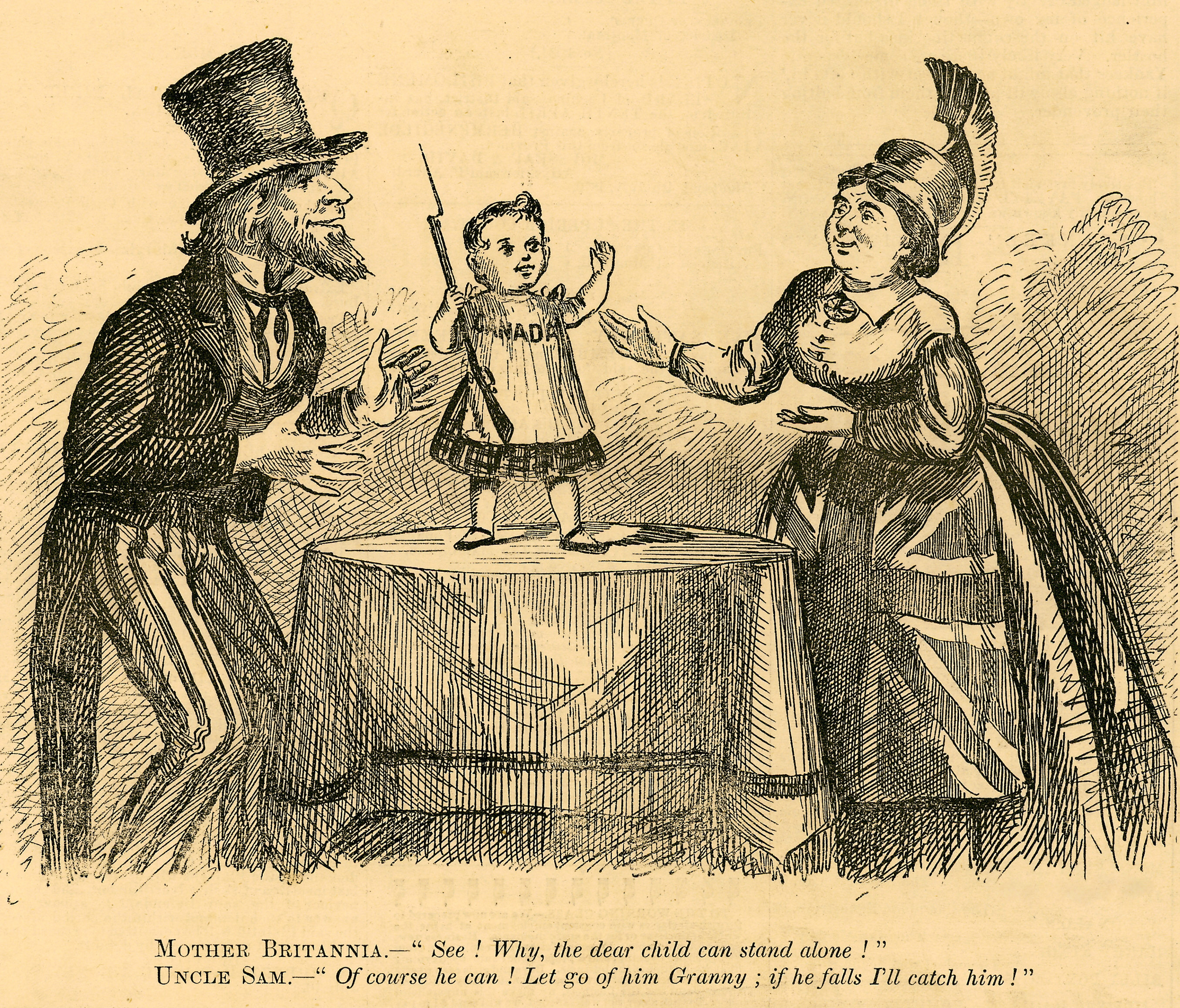 Published in July 1870, when Canada took possession of Rupert's Land following the Red River Rebellion, this cartoon appeared just three years after the birth of Canada in 1867. Canada is depicted as a child, with Great Britain, represented as Mother Britannia, holding out her protective arms. Uncle Sam, representing the United States, stands on the other side, ready to "grab" the child if it falls.